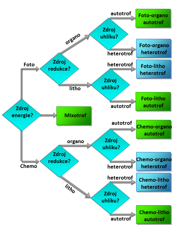 Complete troph flowchart czech B5 format